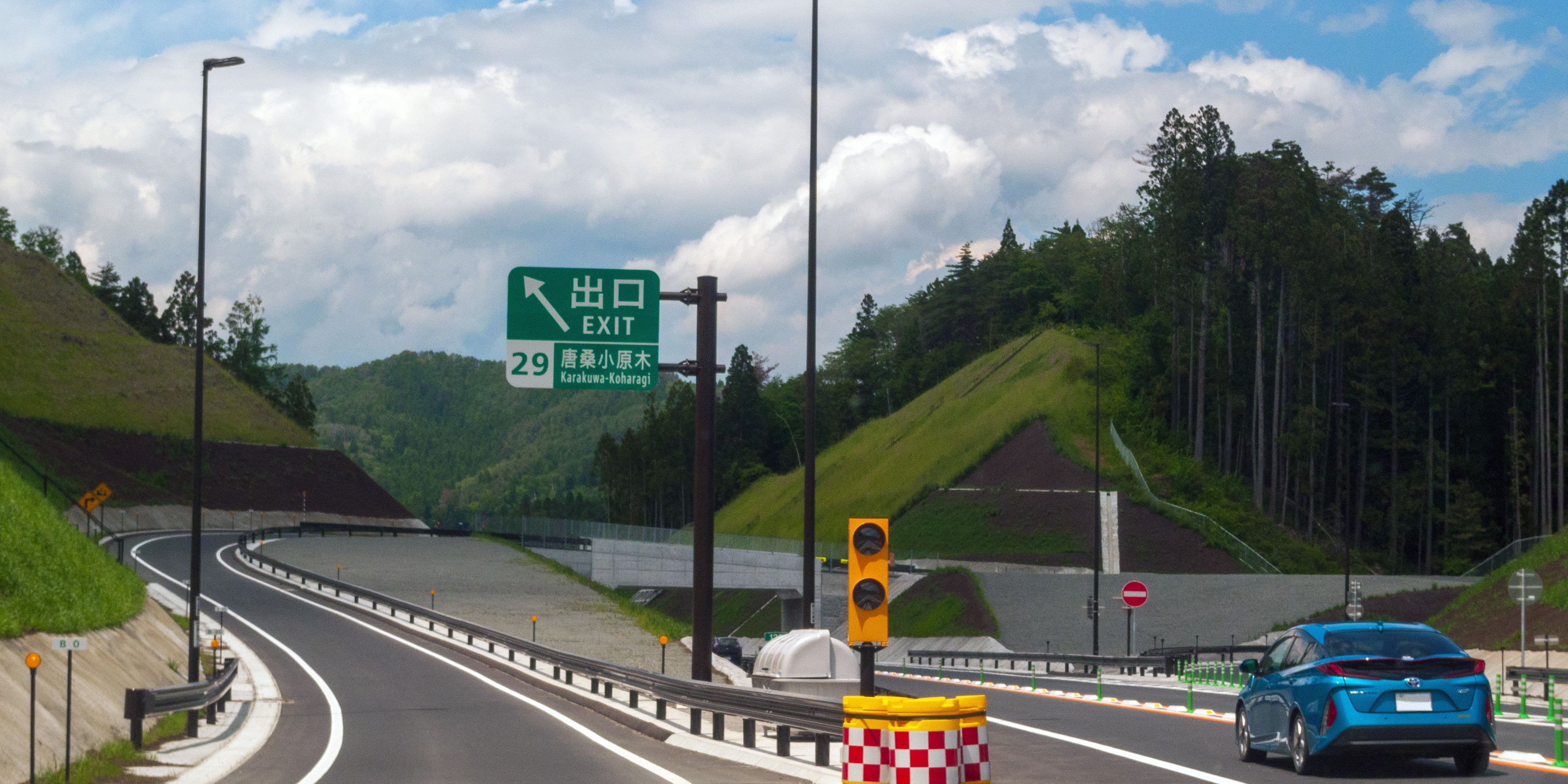 Karakuwa-Koharagi Interchange on the Sanriku Expressway northbound line in Kesennuma City, Miyagi Prefecture, Japan